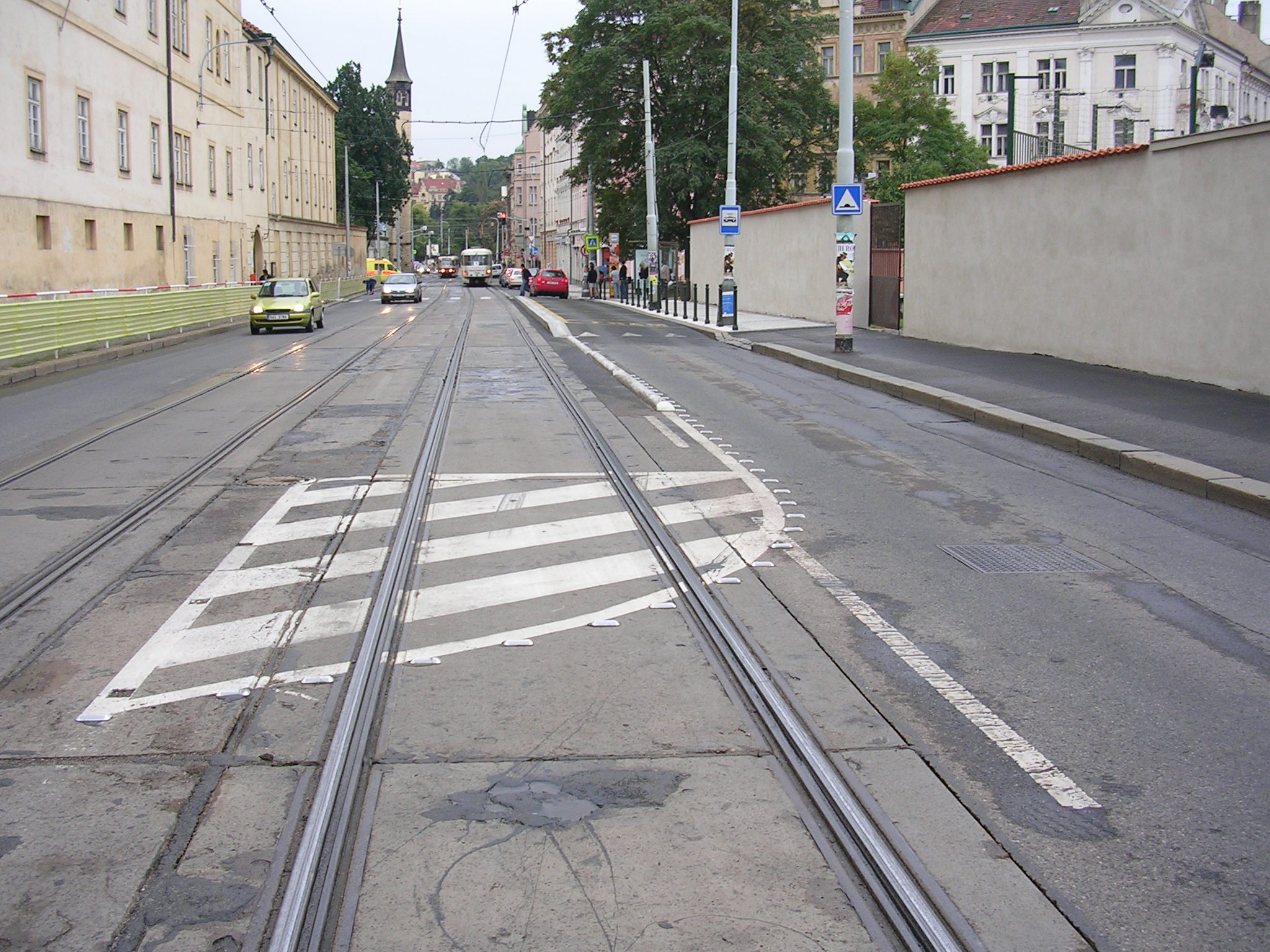 Prague, New Town. Tram stop Albertov.